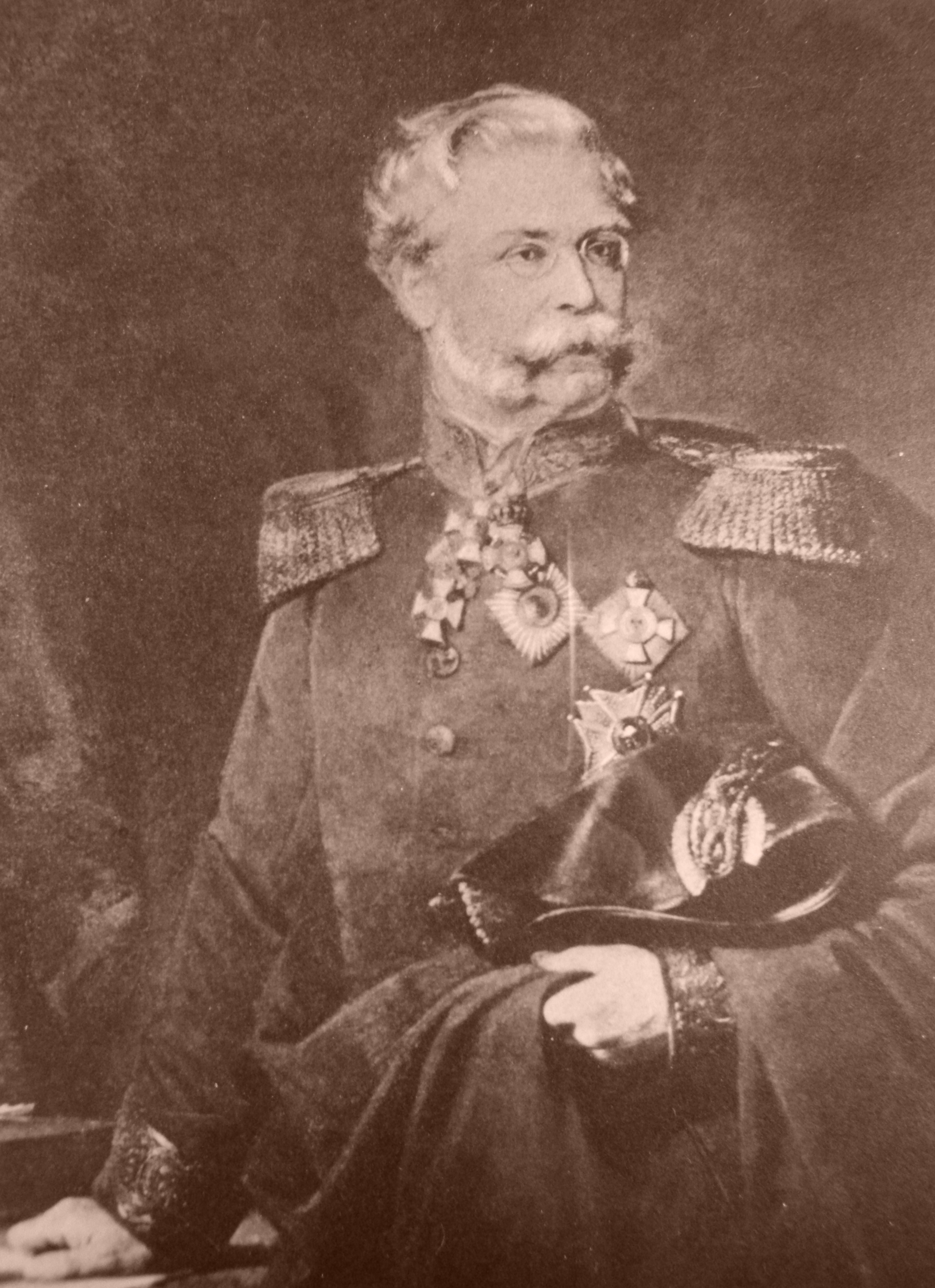 Photo, made before WWII from a painting, that has been destroyed since. The photo was handed down to me from my grandfather Friedrich Hubert Maria Sydney von Kuehlwetter. The original painting before destruction was in the posession of my great-grandfather. Several more photos of my Kuehlwetter ancestors have been posted by me on google+. Please look for my open profile "Johannes Reckel" The following information is found handwritten by my grandfather at the back of this photo: "Fridericus, CHristianus, Hubertus Kuehlwetter geadelt 1865 geb. 17.4.1809 Duesseldorf gest. 2.12.1882 Muenster/Westfalen verh. mit Therese Thuesing 23.6.1835 geb. 22.10.1810 Arnsberg/Westfalen gest. 16.8.1854 Aachen Kinder: Friedrich, Erich (?), Paul (?), Berta, Emma. Hist.: 1847 Preussischer Minister des Inneren. 1849 beurlaubt. Gründer vieler linksrheinischer Eisenbahnen. Regierungspräsident Aachen. 1864-1871 im Gefolge Koenig Wilhelms I. 1872-1882 Oberpraesident von Westfalen. Freund von Bismarck im Kulturkampf ab 1875" Obiges Gemälde hing bis ca. 1943 in der Wohnung der Kühlwetters in Zehlendorf . Adele v. Kühlwetter hatte 1931 ihren Mann durch Tod verloren. 1943 floh sie aus Berlin zunächst nach Pommern, später Künzelsau im Westen. In ihrer Abwesenheit hatte ein Cousin Hildebrand Zugang zu der Wohnung. Er muß so um die 15-16 Jahre alt gewesen sein und wollte Maler werden. Leinwand war im Krieg nicht zu besorgen. Also zerschnitt er obiges lebensgroße Gemälde in kleine Rechtecke, um die Rückseite für seine Malversuche zu nutzen. Die umfangreiche Korrespondenz und die Aufzeichnungen meines Urururgroßvaters hat mein Großvater noch vor dem Krieg an das Landesarchiv in Potsdam übergeben.